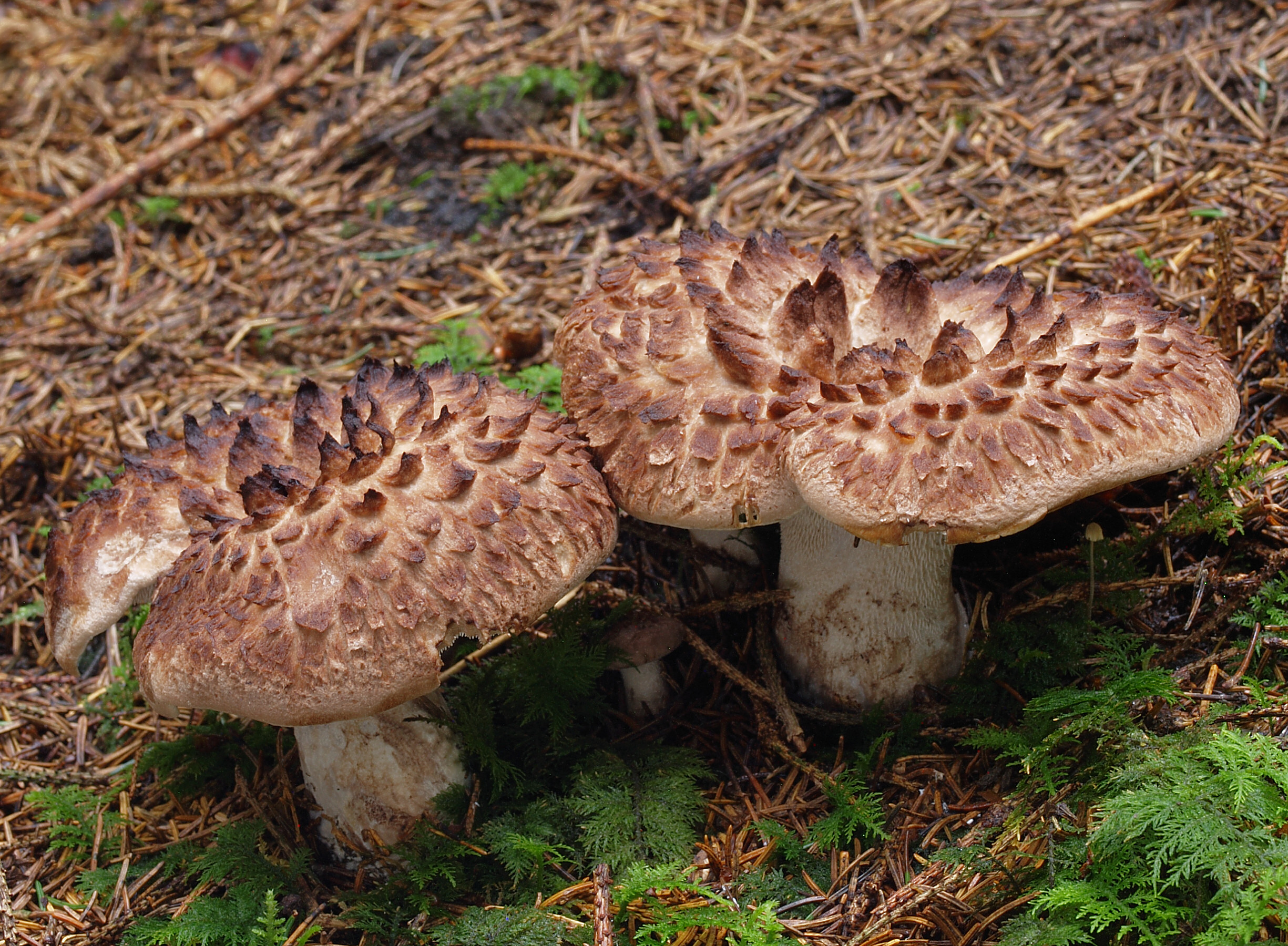 Shingled Hedgehog (Sarcodon_imbricatus)